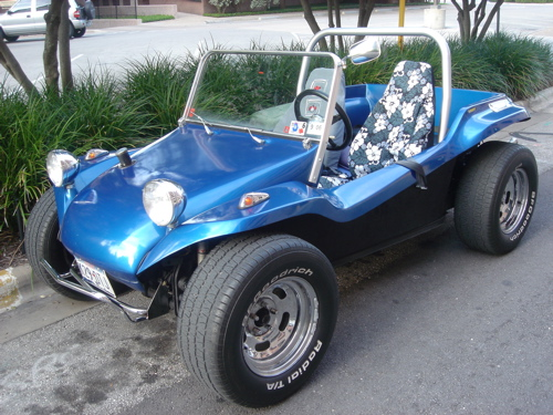 Chris Athanas, my dune buggy